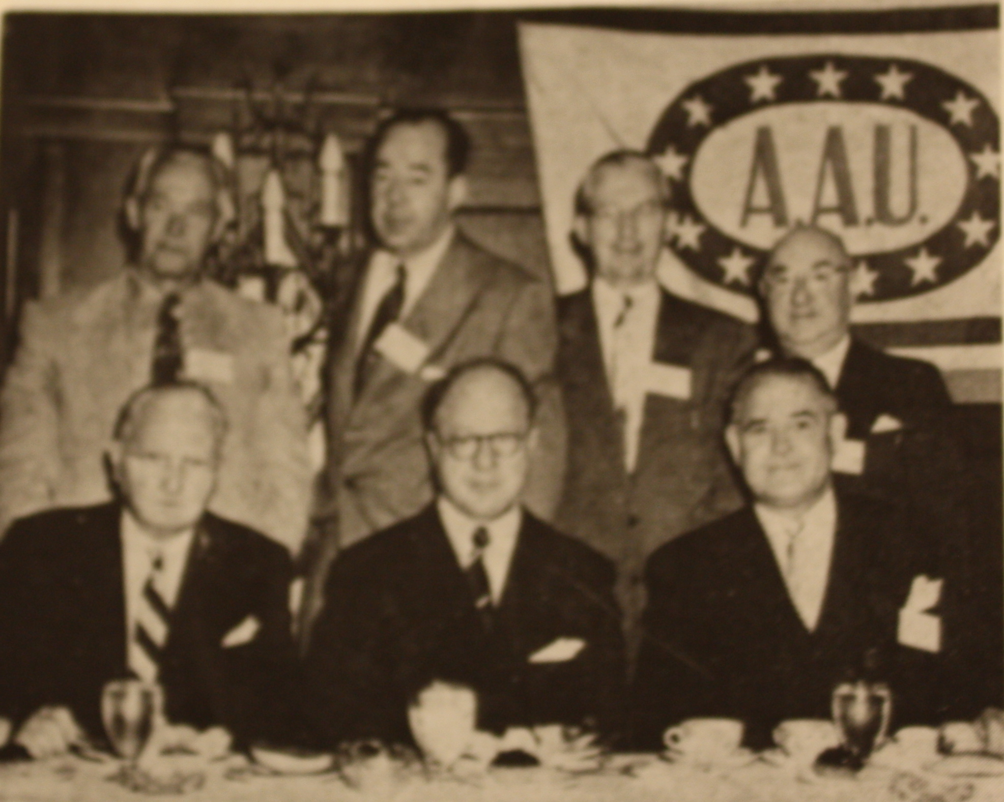 IOC president Avery Brundage (seated, center) surrounded by other former or present AAU officials, December 1963. Magazine contains no copyright notice.